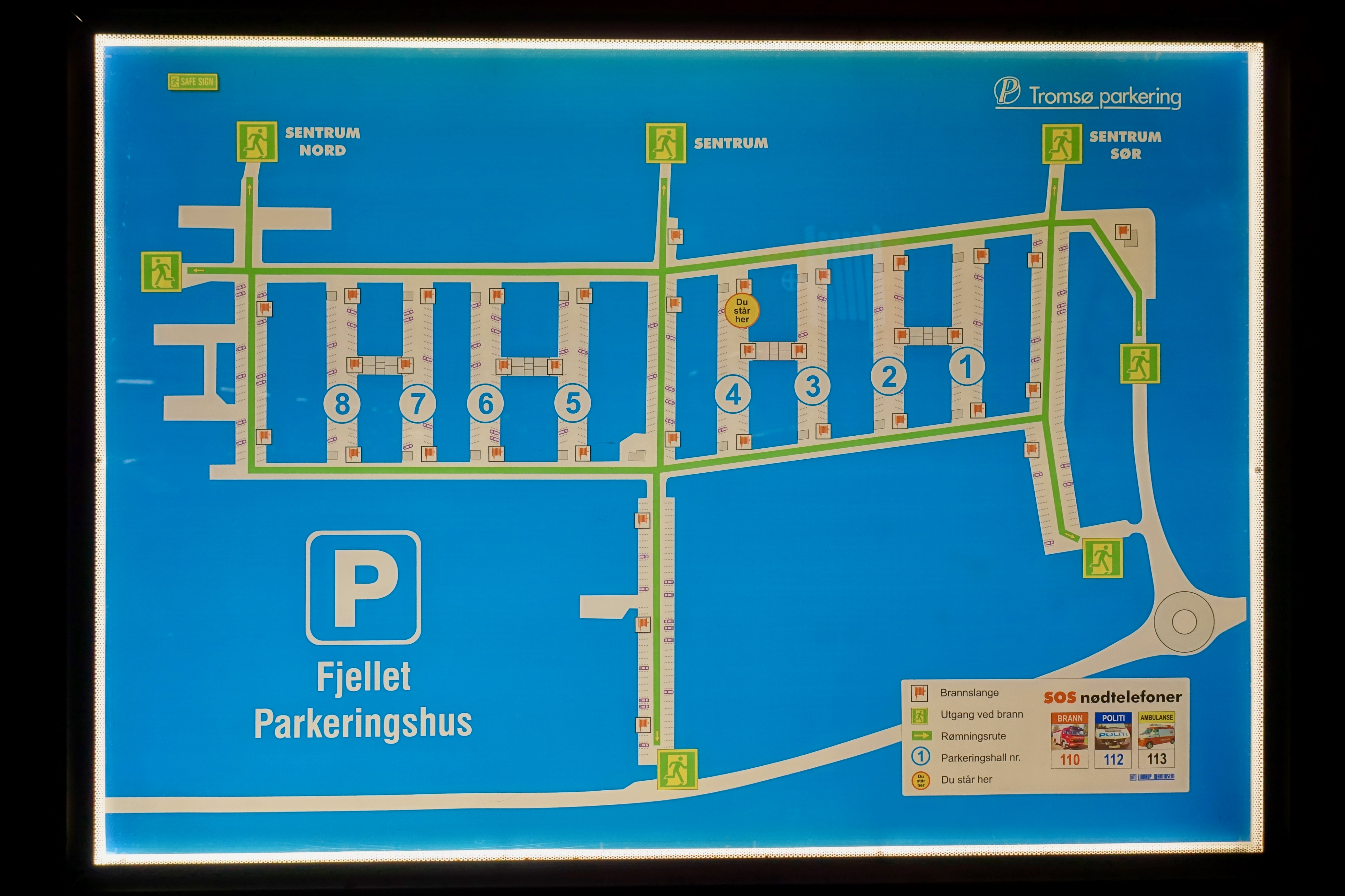 Plan/floor map (safety sign) of Tromsø Parkering's Fjellet P-hus/parkeringshus (aka "parkeringstunnelen"), a parking underground structure shaped like a road tunnel and located in Tromsø, Norway. This indoor car park spans beneath most of the city centre. The facility uses an automated barrier system. Photo taken on 2019-04-03